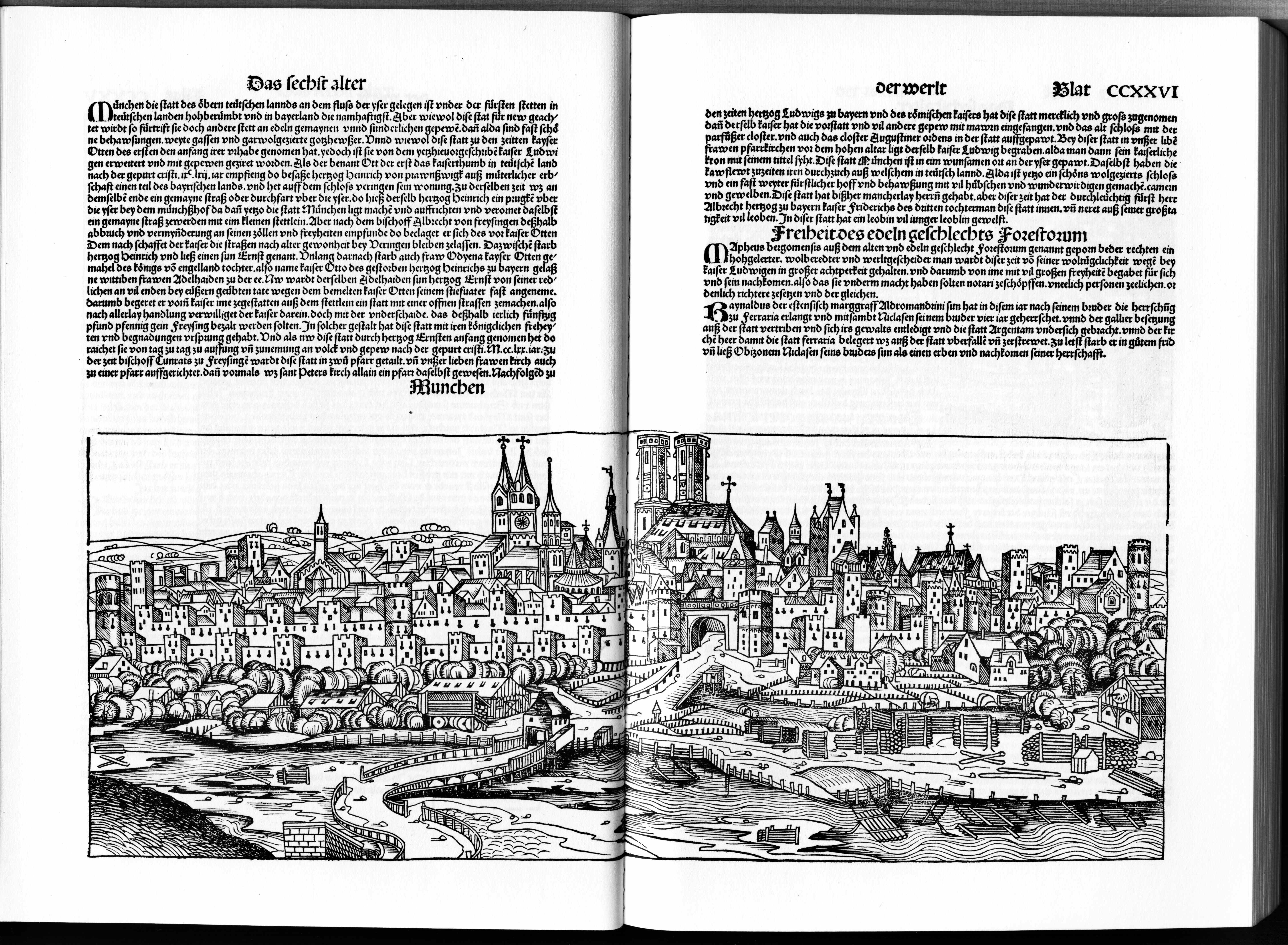 This is a scan of the historical document